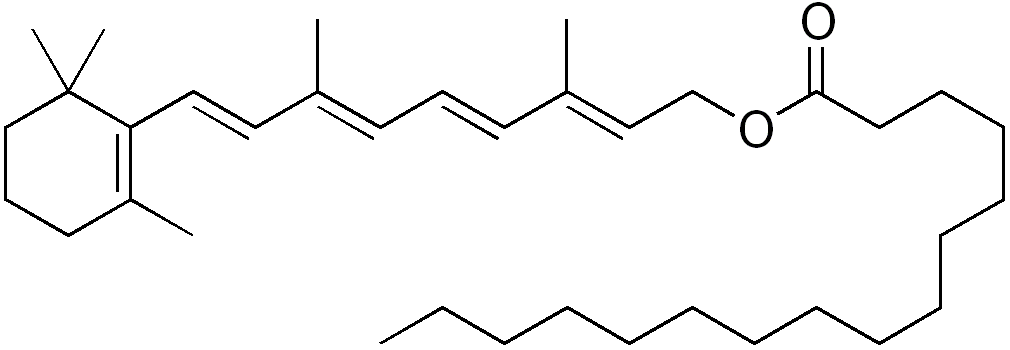 chemical structure of retinyl palmitate